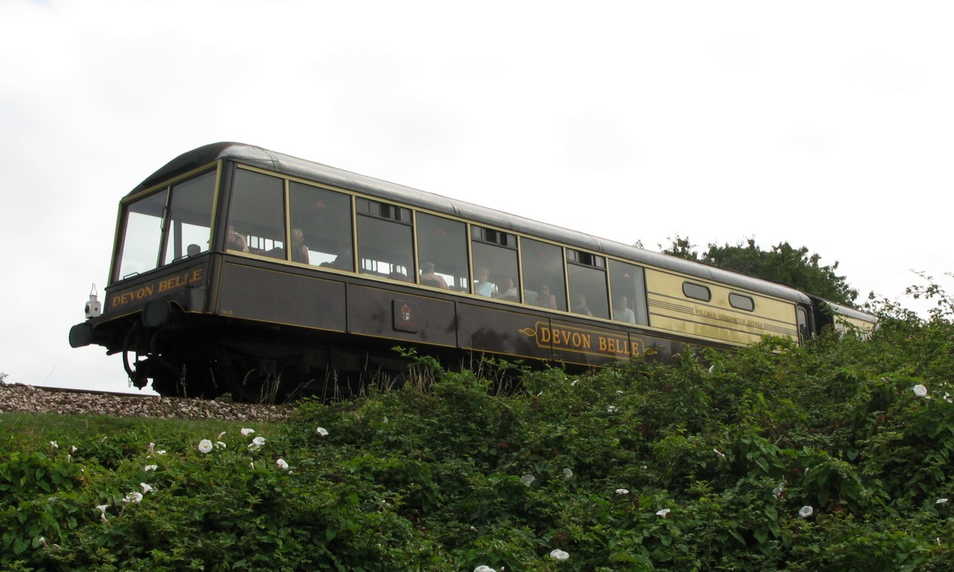 The former Devon Belle Pullman observation saloon in use on the Paignton and Dartmouth Steam Railway. It is at the rear of a Paignton to Kingswear train near Goodrington Sands, Torbay, Devon, England.